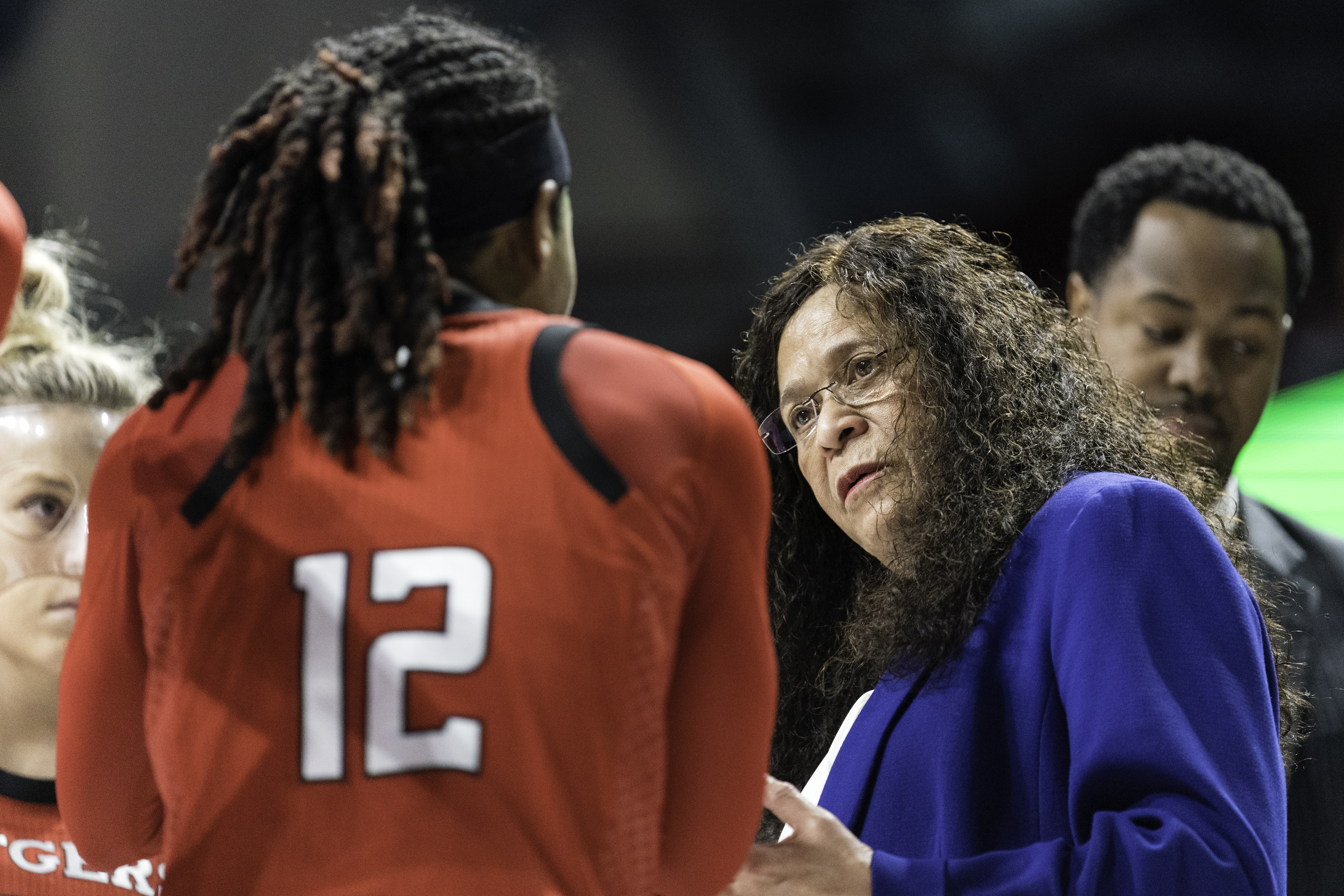 Rutgers women's basketball head coach, C. Vivian Stringer talks to a player in a game against Minnesota